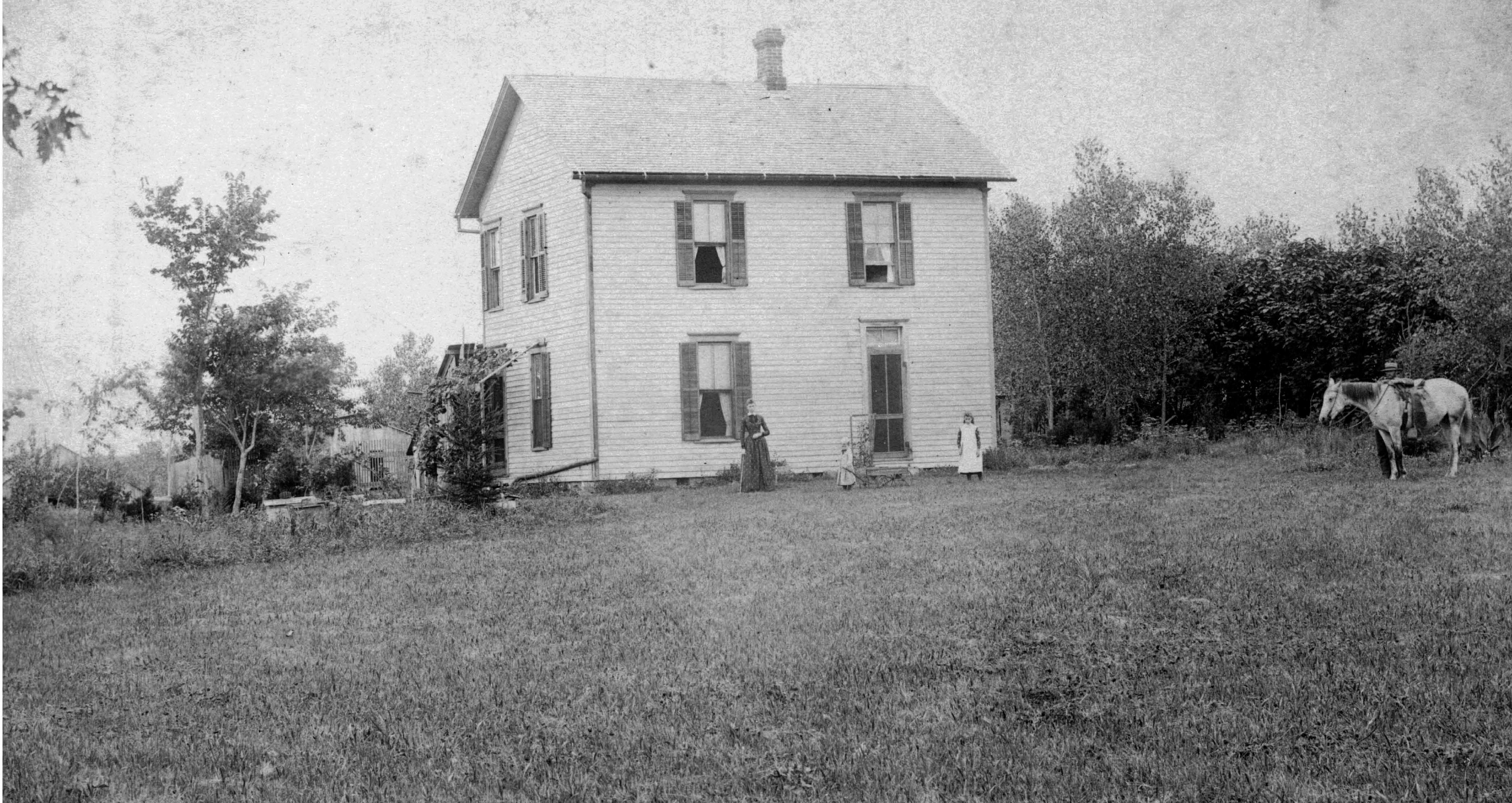 More than 100 year old photo